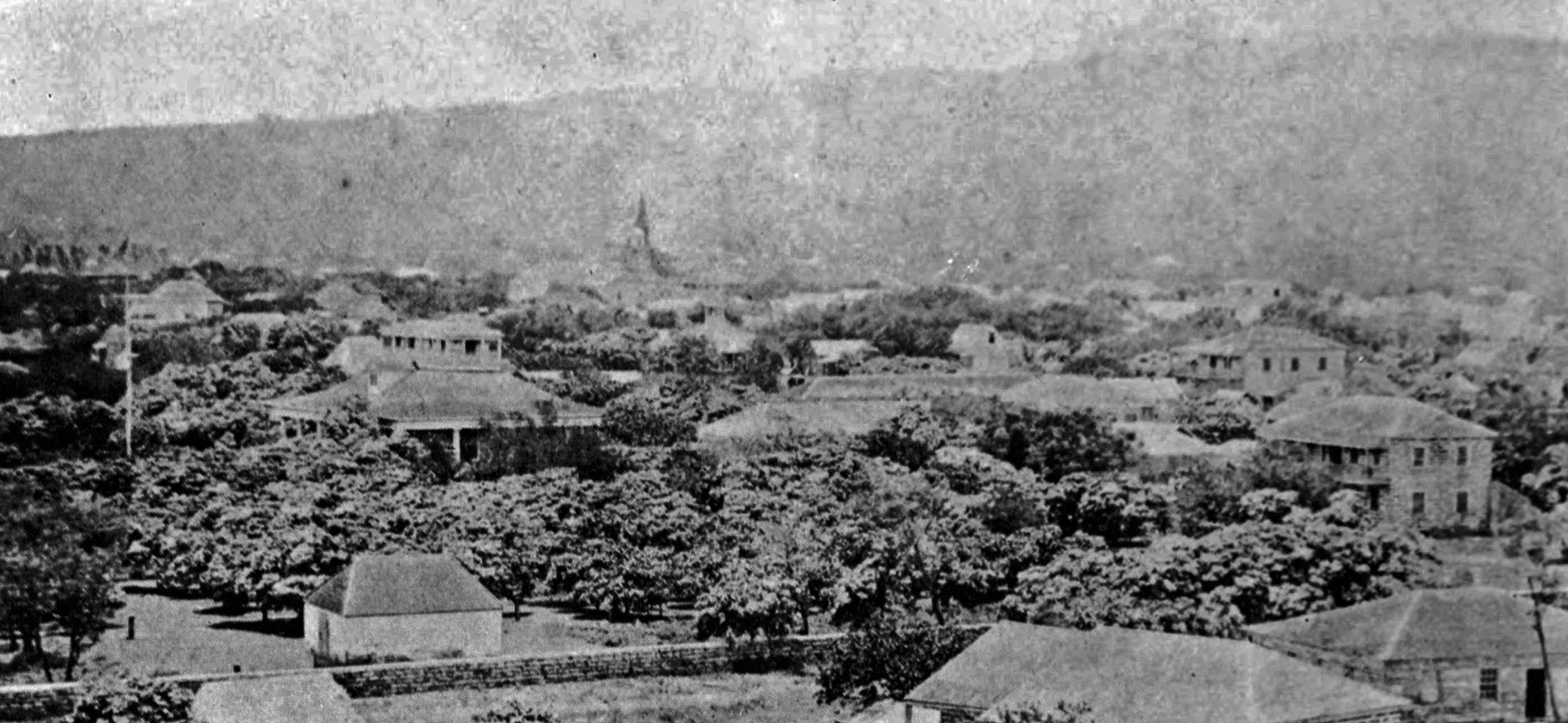 The original Royal Tomb at Pohukaina circa 1850s. To the left is the simple stone structure of the tomb which the bones of many ali'i nui were transferred to. To the far right is the two story brick home of Kekauluohi and Charles Kanaina, where William Charles lunalilo was born. (Image has been cropped and photoshopped for shadow, exposure and darkness)